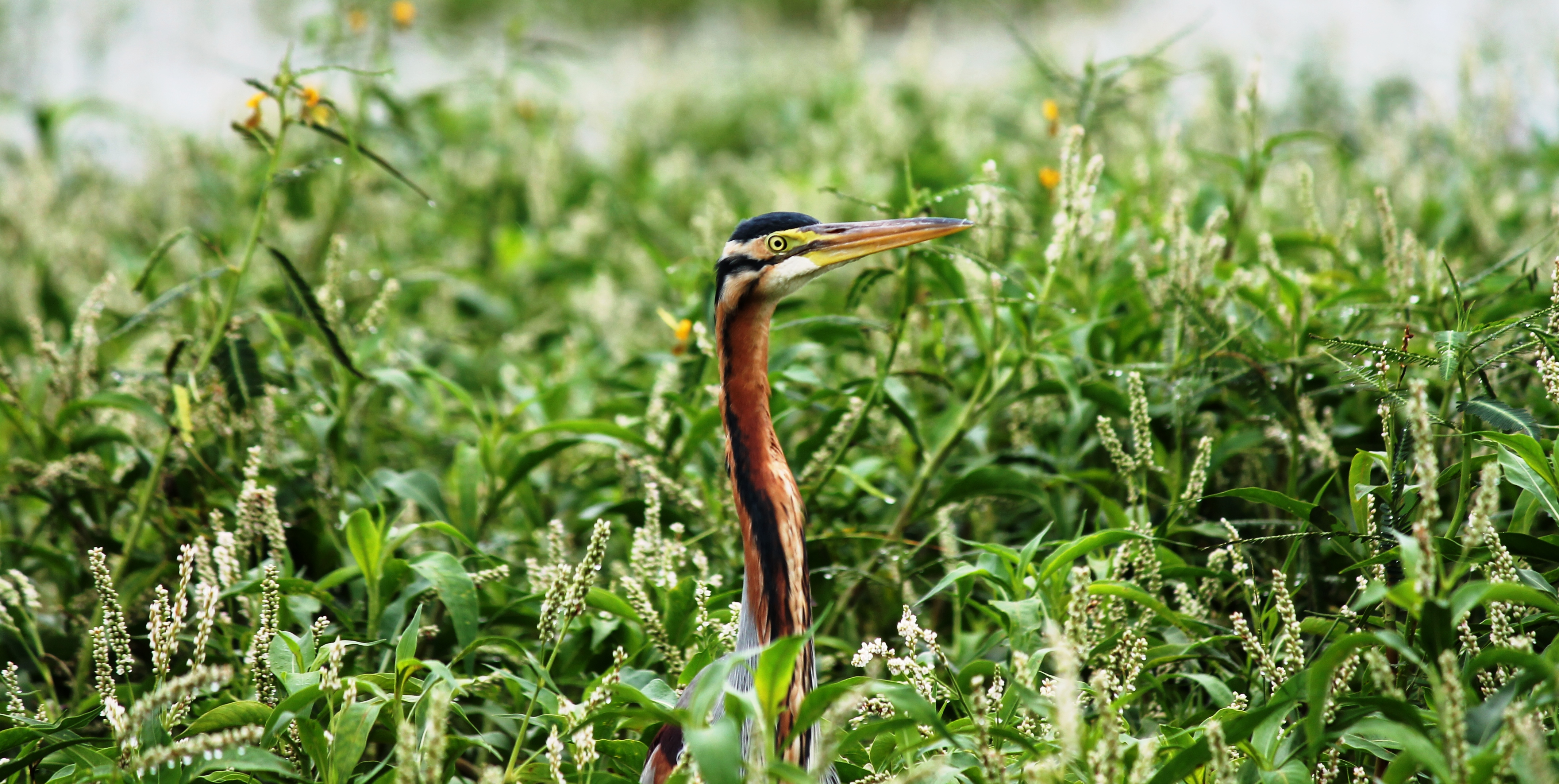 Huge Purple Heron in the Middle of Dambulla Lake, Sri Lanka